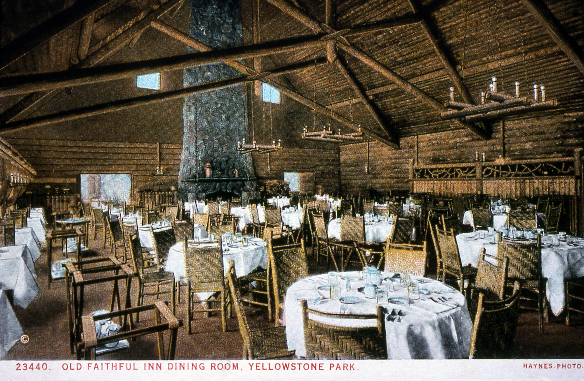 Postcard 23440 - Old Faithful Inn Dining Room; J E Haynes; No date; catalog#DSF-14296; original#YELL-185345